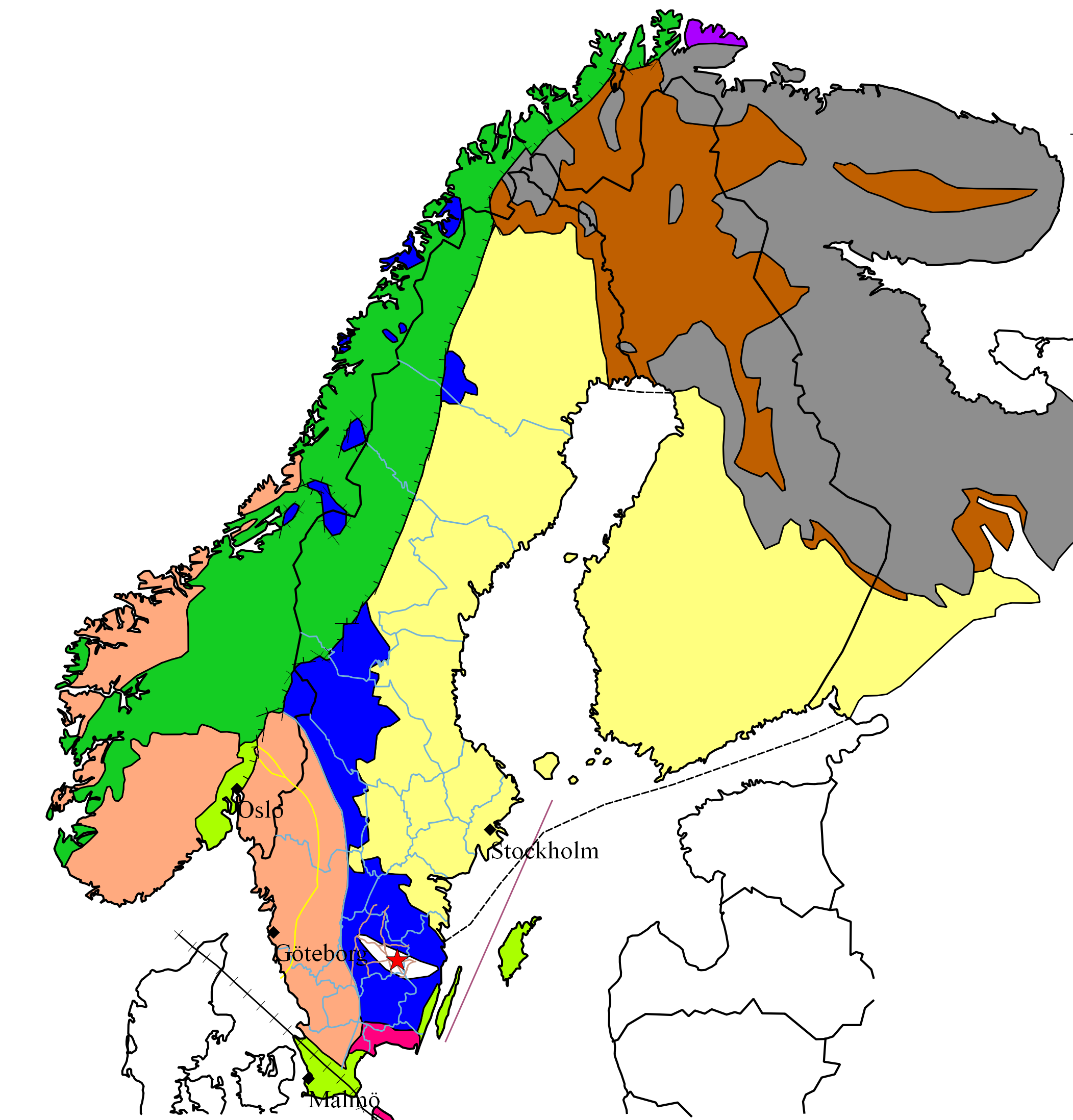 Map of the geological units of Fennoscandia. Archean rocks of the Karelian, Belomorian and Kola domains Proterozoic rocks of the Karelia and Kola domains Svecofennian Domain Transscandinavian Igneous Belt Timanide Orogen Sveconorwegian Orogen (including the Western Gneiss Region) Caledonian nappes